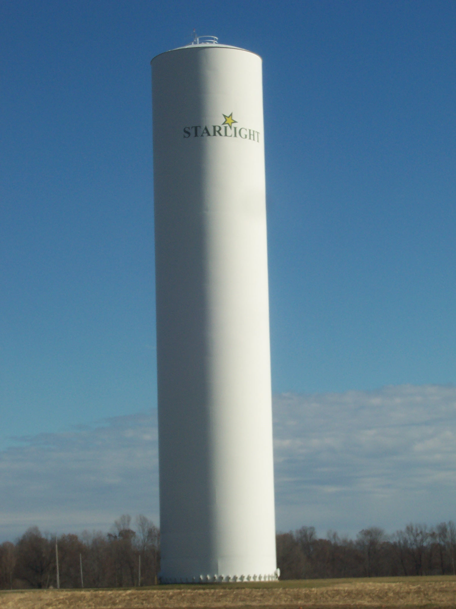 The water tower in Starlight, Indiana, the tallest structure in the community.